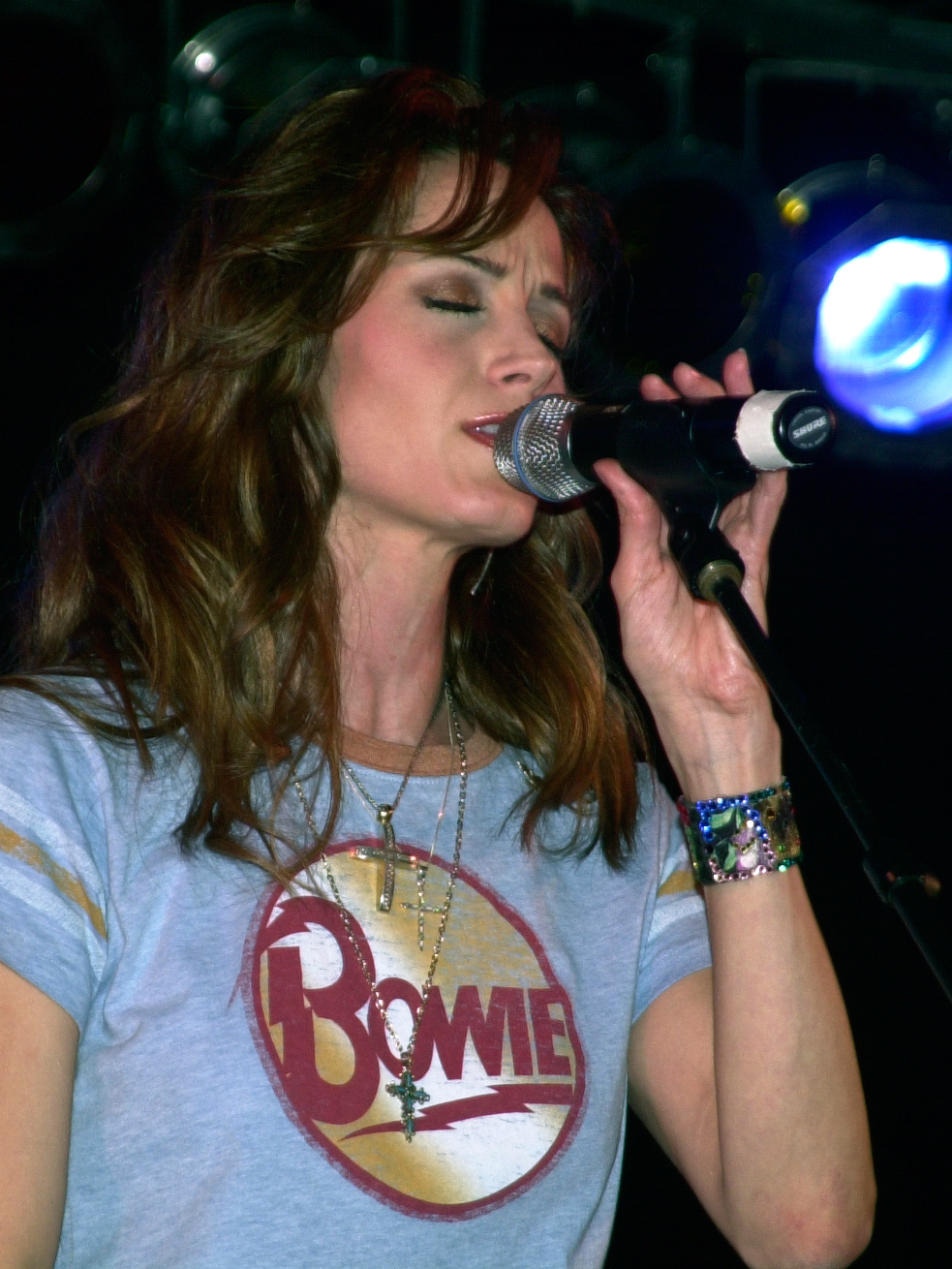 MARINE CORPS BASE CAMP LEJEUNE, N.C. - Country music singer Chely Wright performs a free concert for Marines at the base theater for Marines prior to their deployment. "It shows a lot for her character to come all the way down here to play for free," said Master Sgt. Mike Batta, an attendant at the show. "It's stars like her who really make an impact. It's such a moral boost to those going on a deployment, it helps them relax and have a little fun before they go." (Official Marine Corps photo by Lance Cpl. Christopher S. Vega)